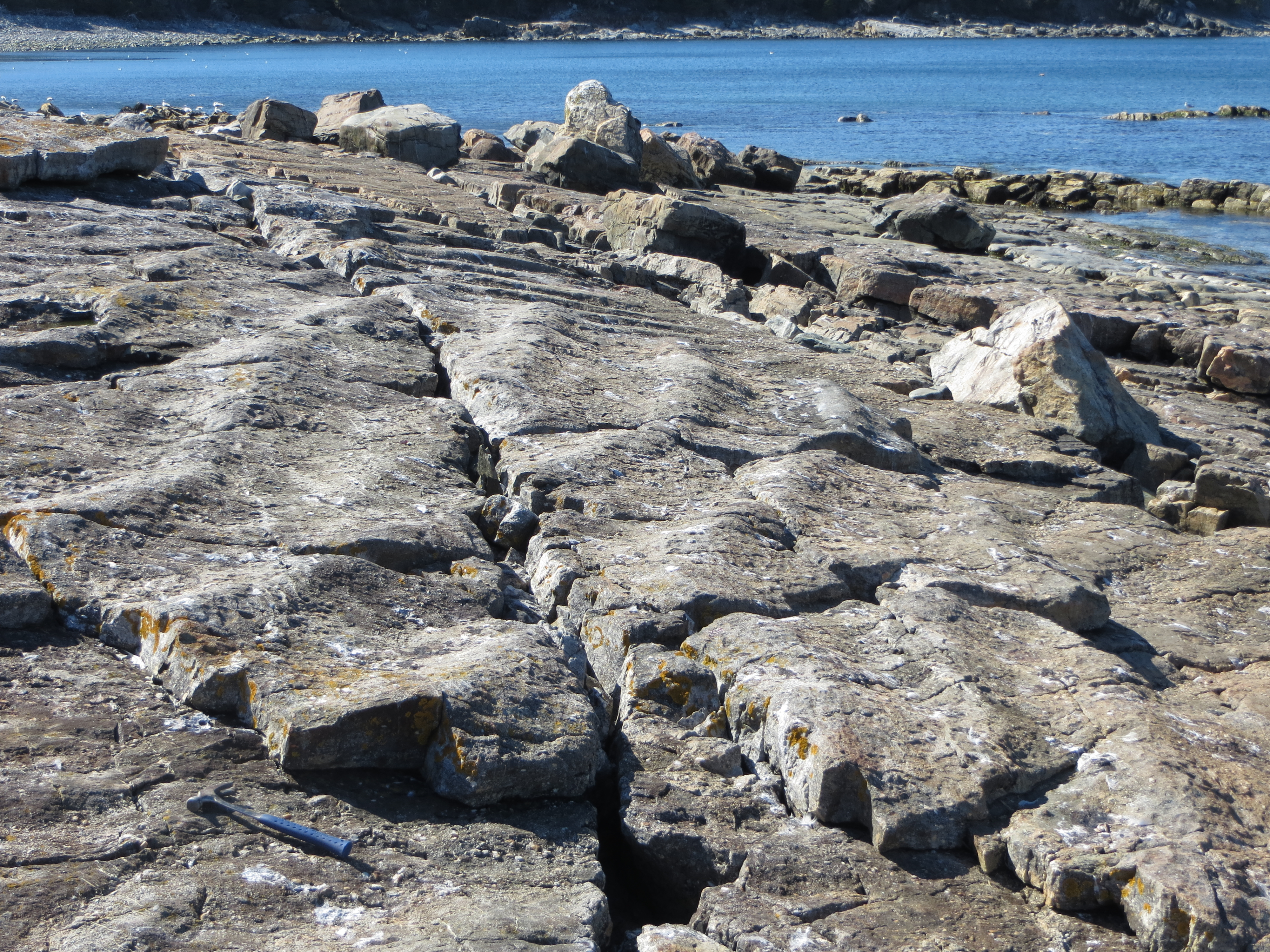 Oscillating-flow megaripples in the Random Formation; see description in [1]